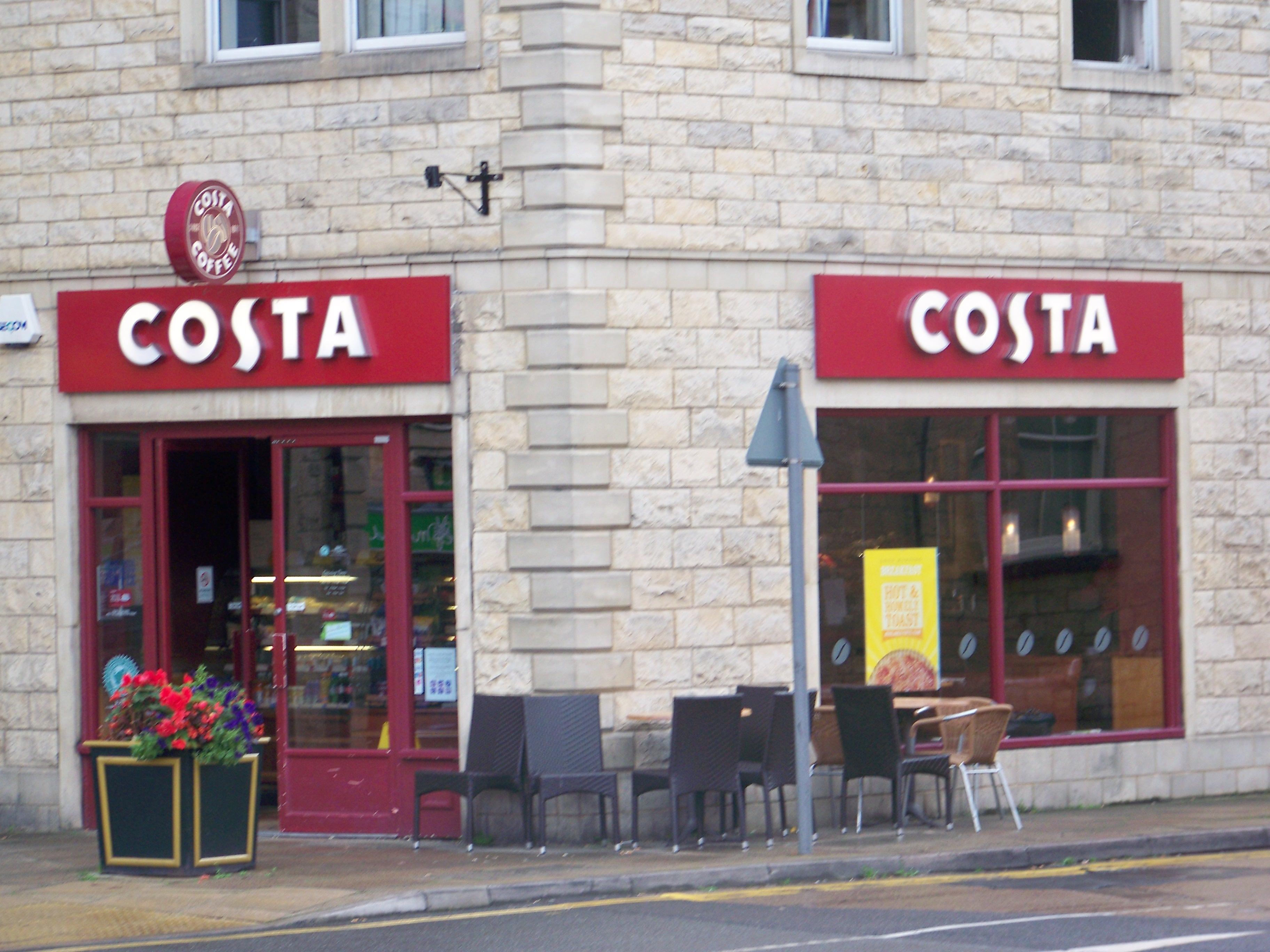 A branch of Costa Coffee in the buildings which make up Wetherby Bus Station (this being one of two branches in the town). The shop was previously 'Save the Children' and there was a bit of controversy over the mammoth coffee chain taking over the former charity shop. Taken on the afternoon of Monday the 13th of September 2010.